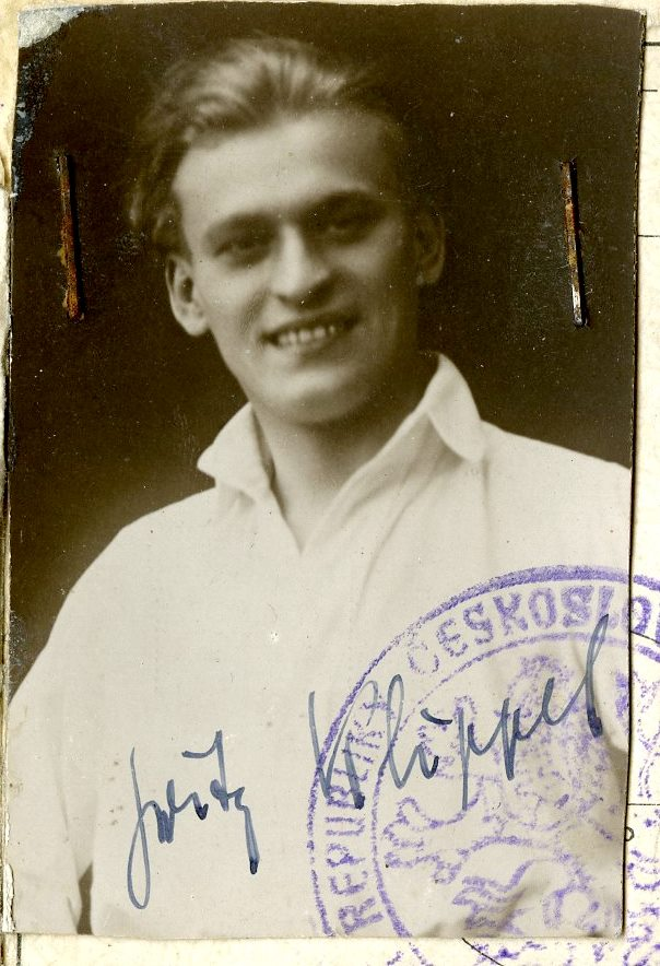 Fritz Klippel - photo from passport (1929).